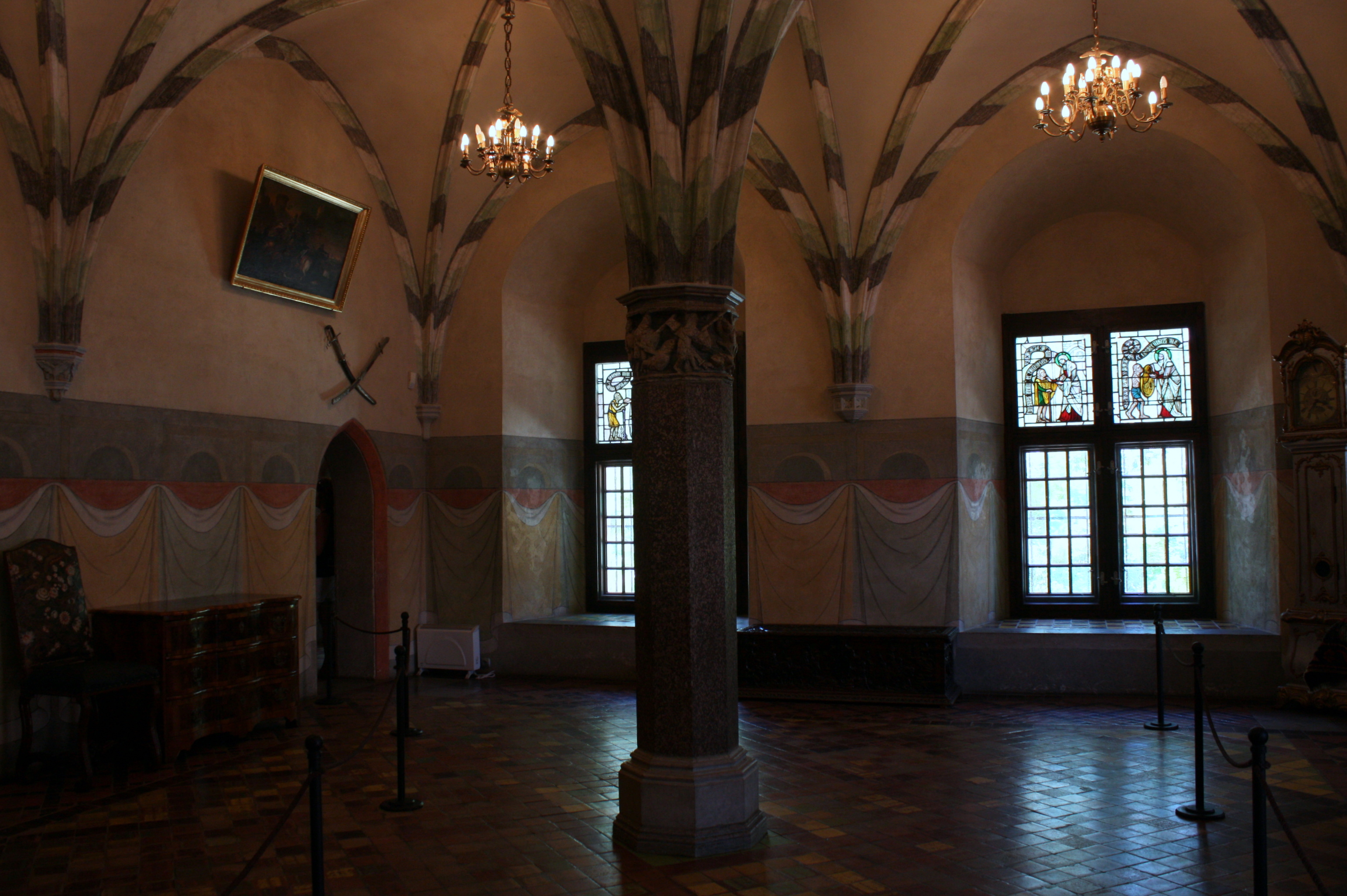 Malbork, Castle of Teutonic Order